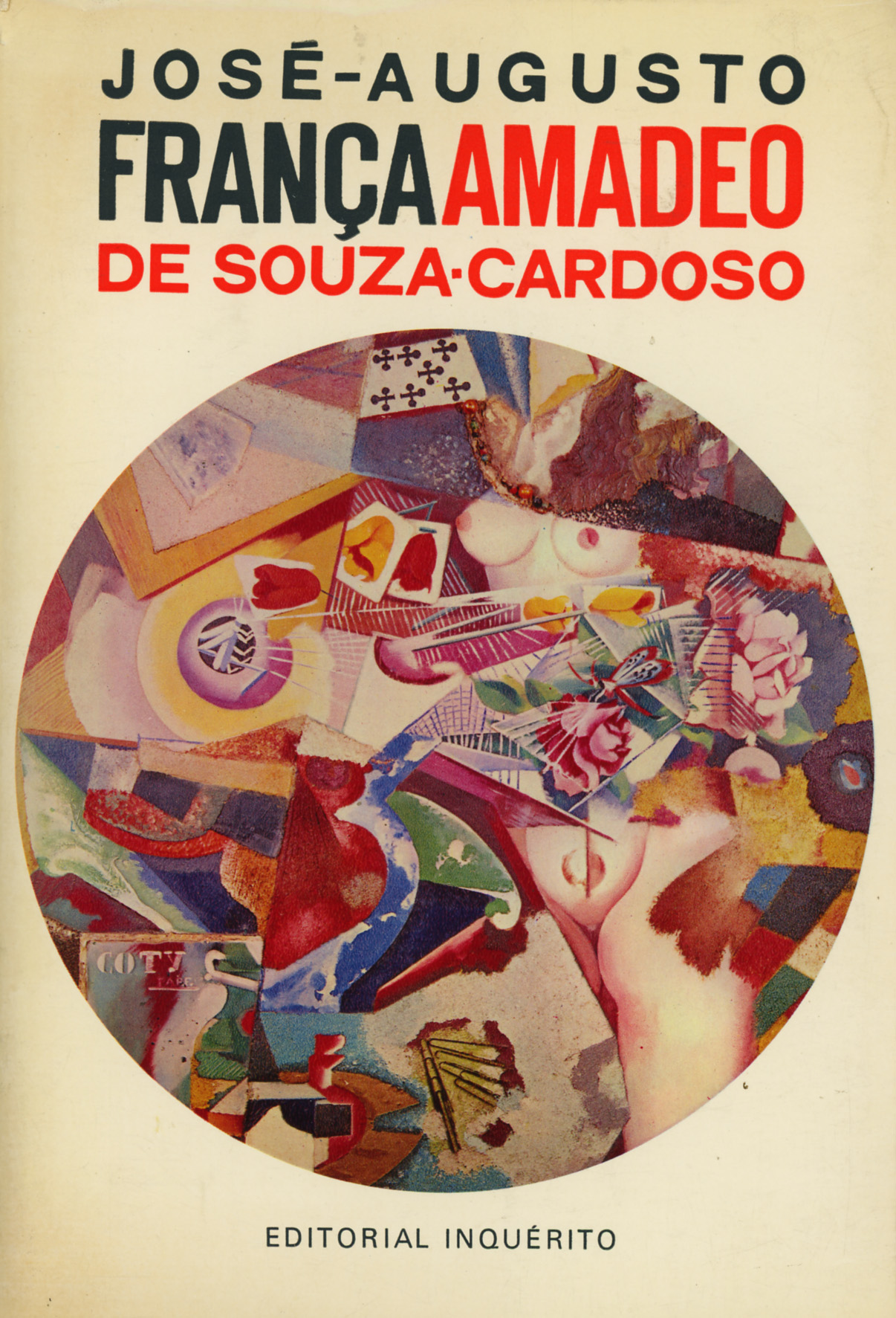 José Augusto França, Amadeo de Souza-Cardoso; painting by Amadeo de Souza-Cardoso.